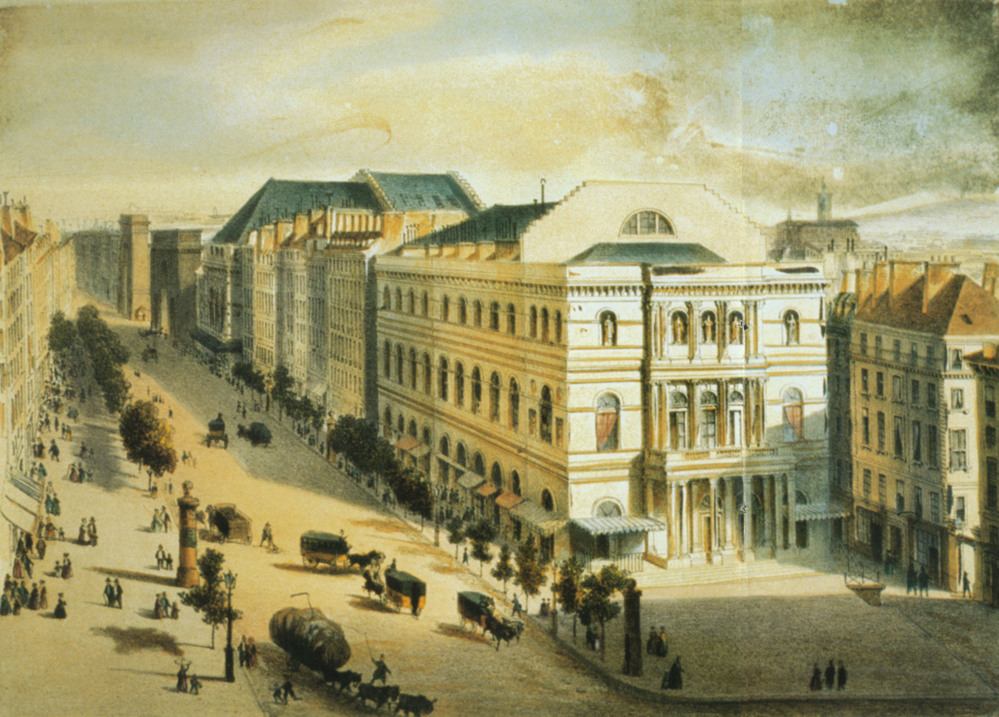 The second Théâtre de l'Ambigu-Comique with a perspective view of the boulevard Saint-Martin. In the distance one can see the Théâtre de la Porte Saint-Martin, the Porte Saint-Martin, and the Porte Saint-Denis.